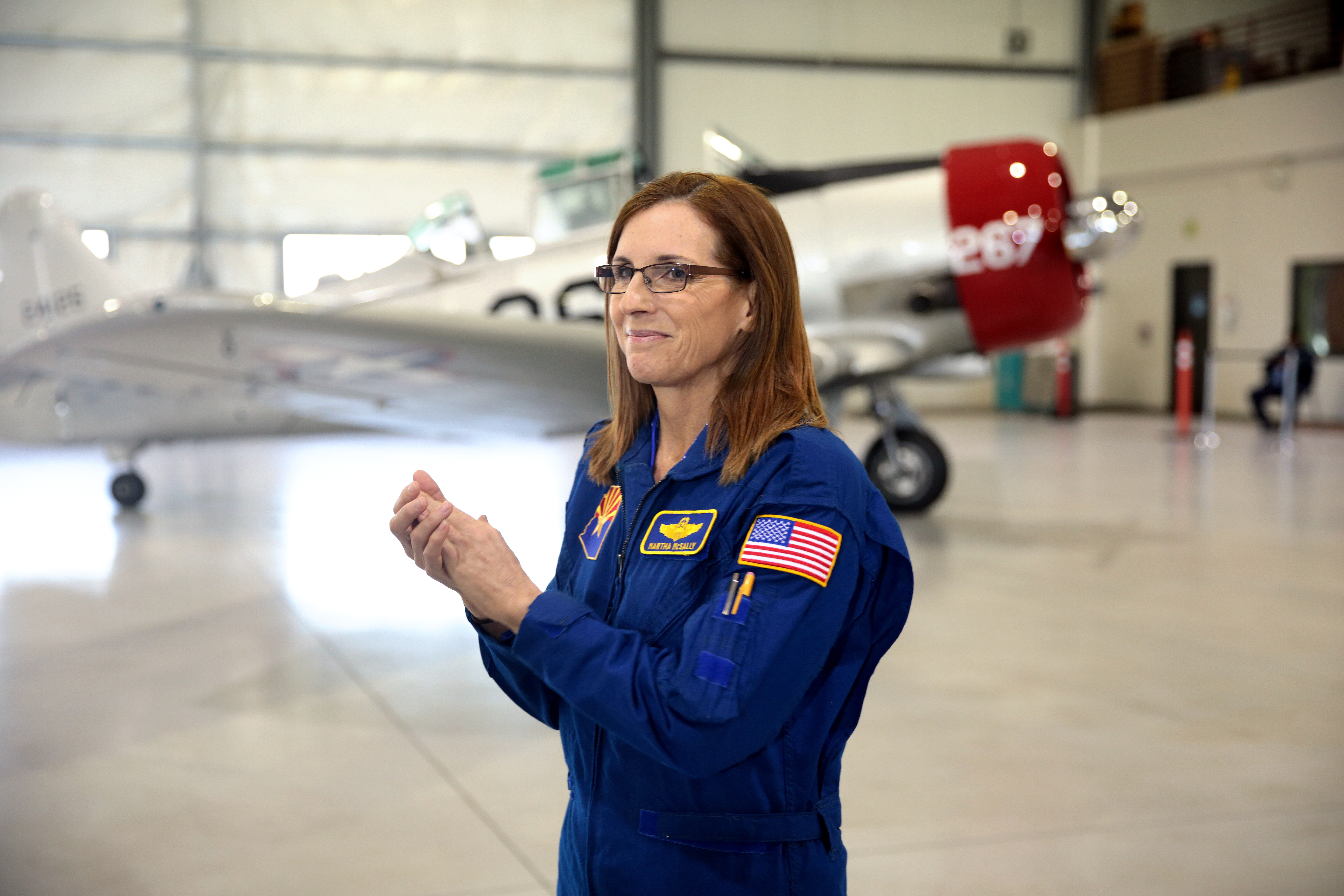 U.S. Congresswoman Martha McSally speaking with supporters at the announcement of her U.S. Senate campaign at the Swift Aviation Hangar in Phoenix, Arizona.